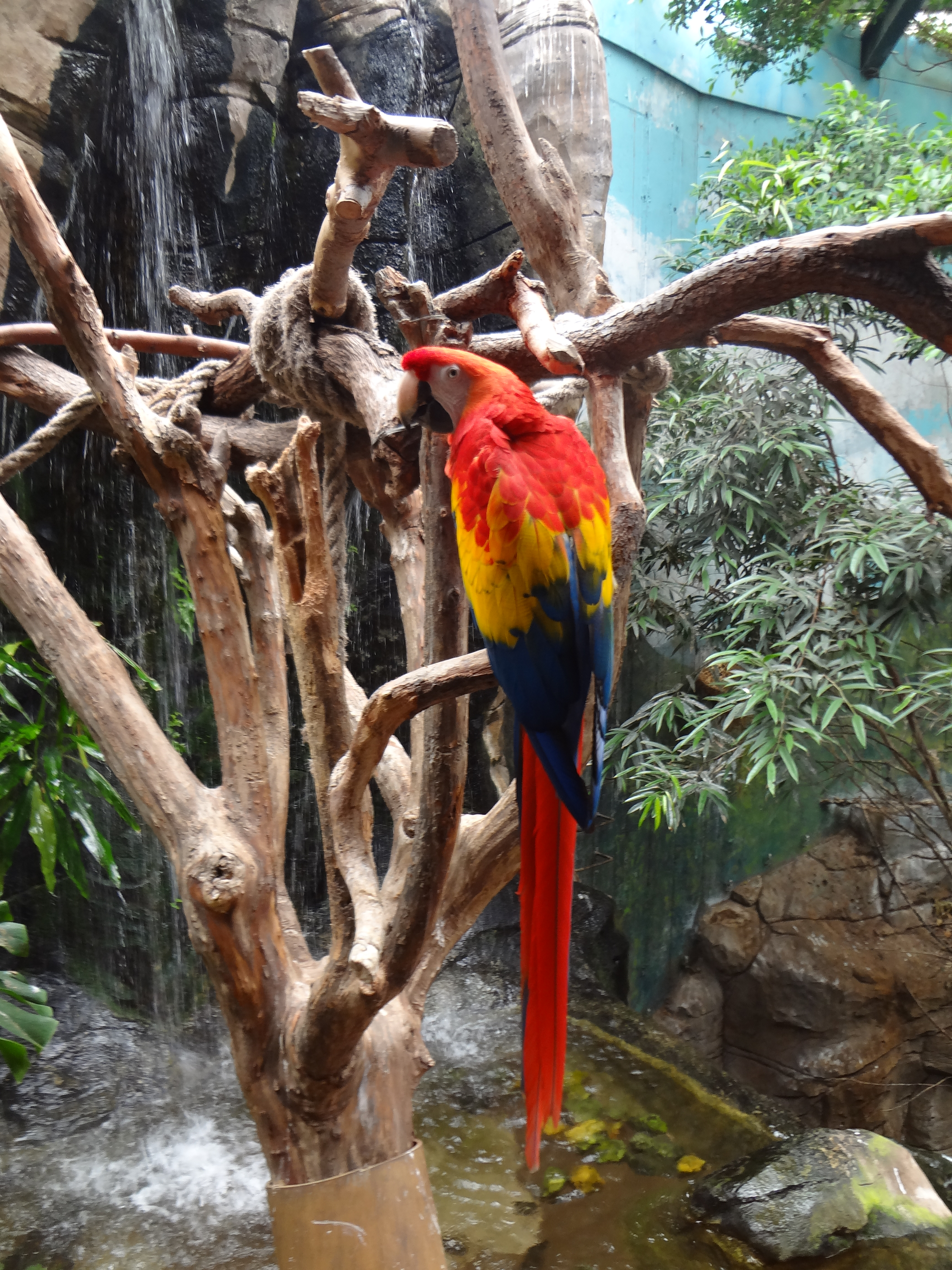 Faunia in Madrid, Spain